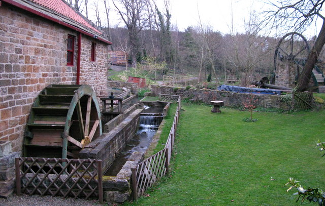 Path Head Water Mill Restored 18th century watermill at Path Head above Stella.